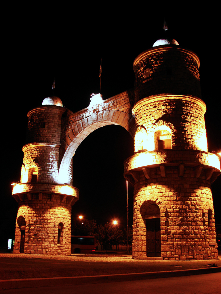 Arc in the south entrance of Cordoba, Argentina.